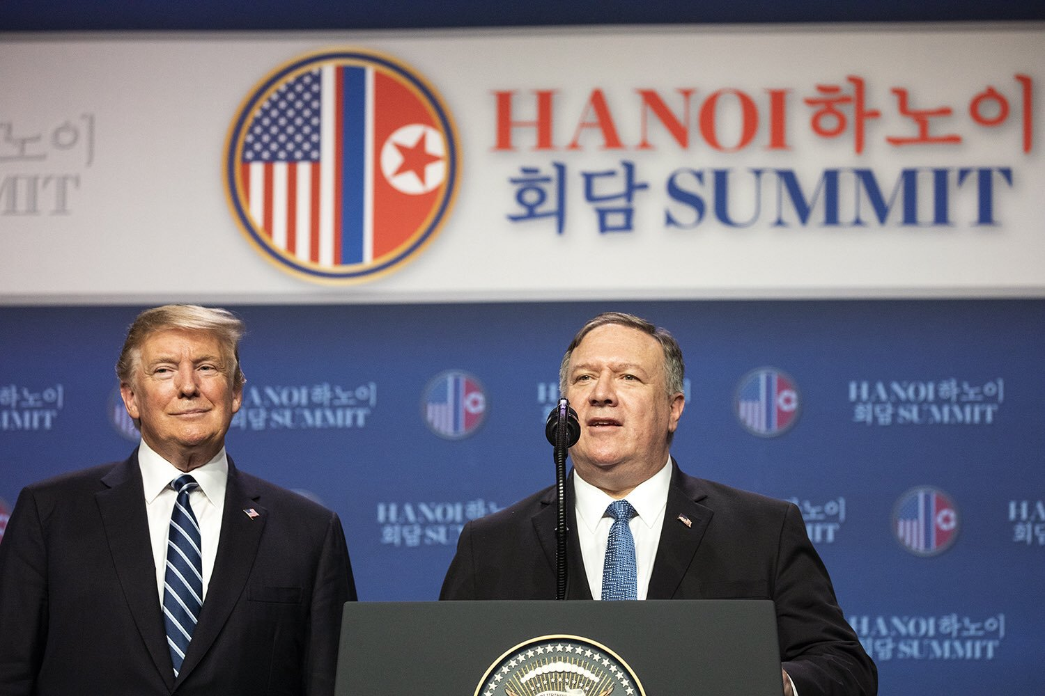 President Donald Trump and Secretary of State Mike Pompeo hold a press conference before departing Hanoi, Vietnam.